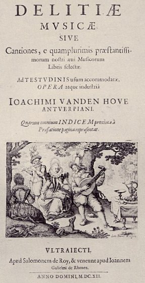 Cover of Delitiae Musicae (Utrecht, 1612), a collection of lute music by Joachim van den Hove.